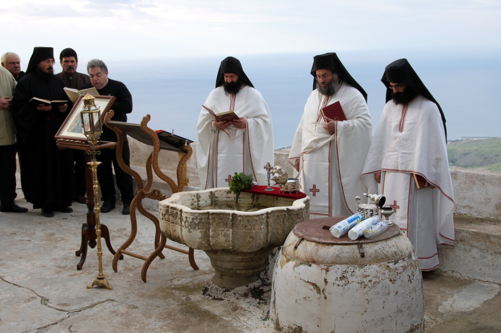 Epiphany Mass in the Monastery of Prophet Elias of Santorini